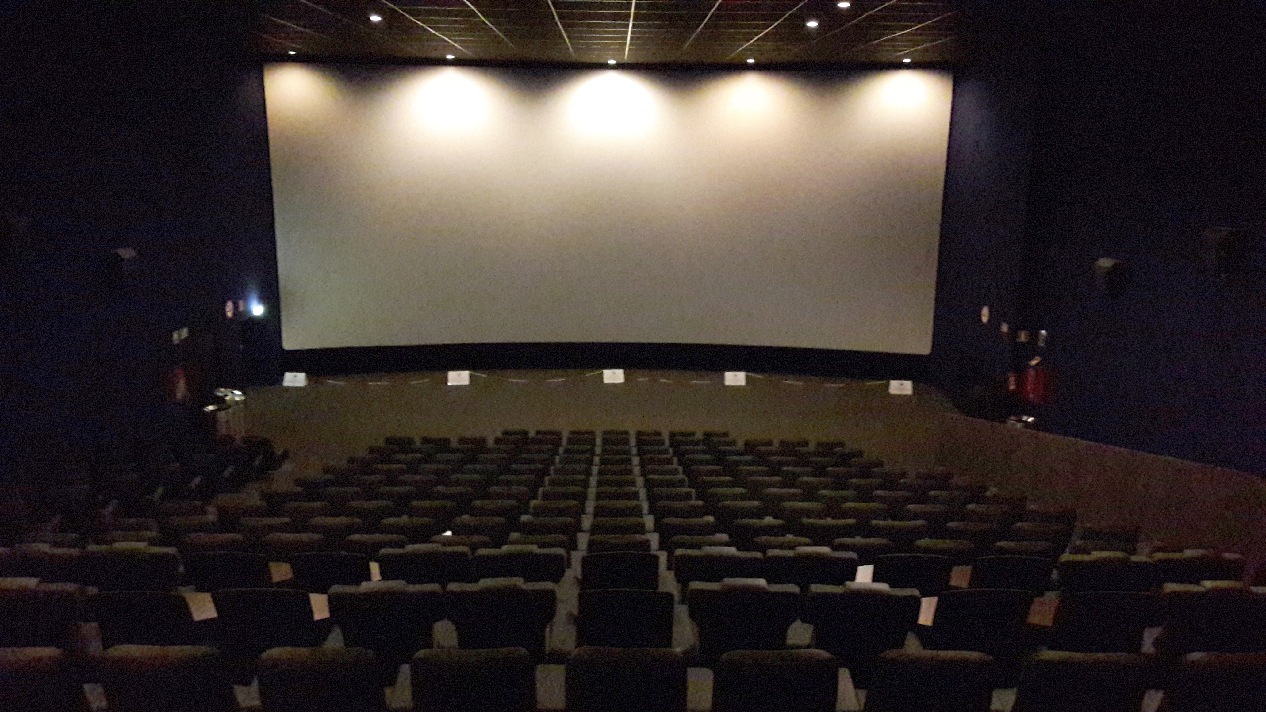 cinema auditorium